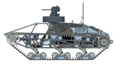 RIPSAW Mil Spec-3 OTM Integration Platform Side view concept sketch.